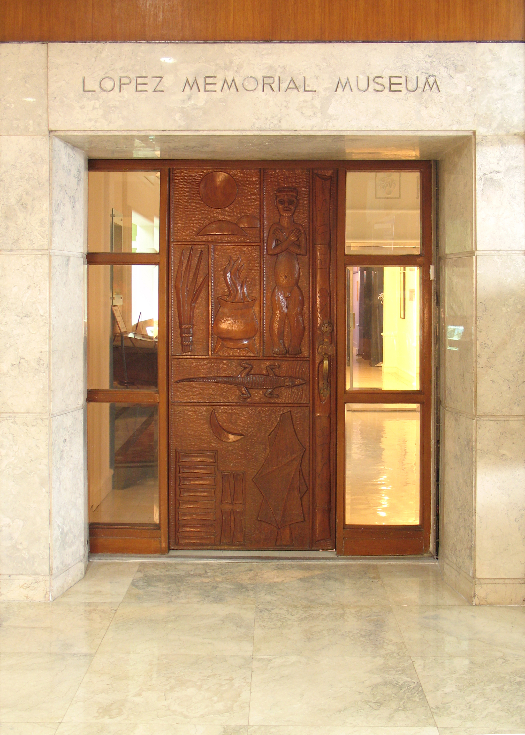 Sculpted bas relief on door — entrance to the Lopez Museum, Pasig City, Philippines.